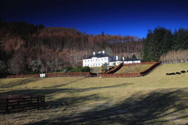 Strathconon House. Now owned by "LEGO" !